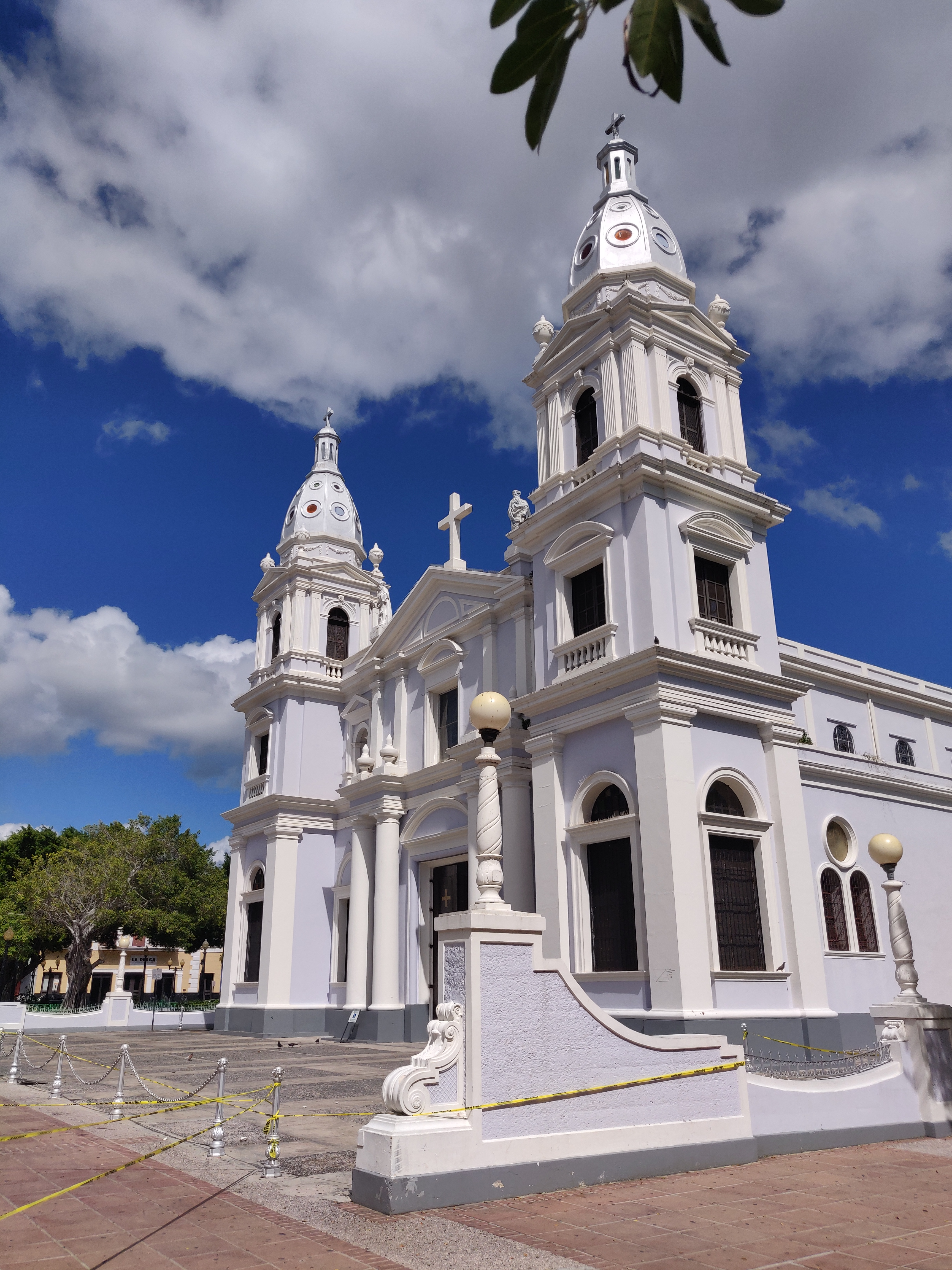 View of the cathedral in Ponce, Puerto Rico, days after January 7th, 2020 earthquake.